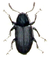 Limnius volckmari, from Calwer's Käferbuch, Table 16, Picture 30. Taxonomy was updated to 2008, using mostly the sites Fauna Europaea and BioLib. Please contact Sarefo if the determination is wrong!